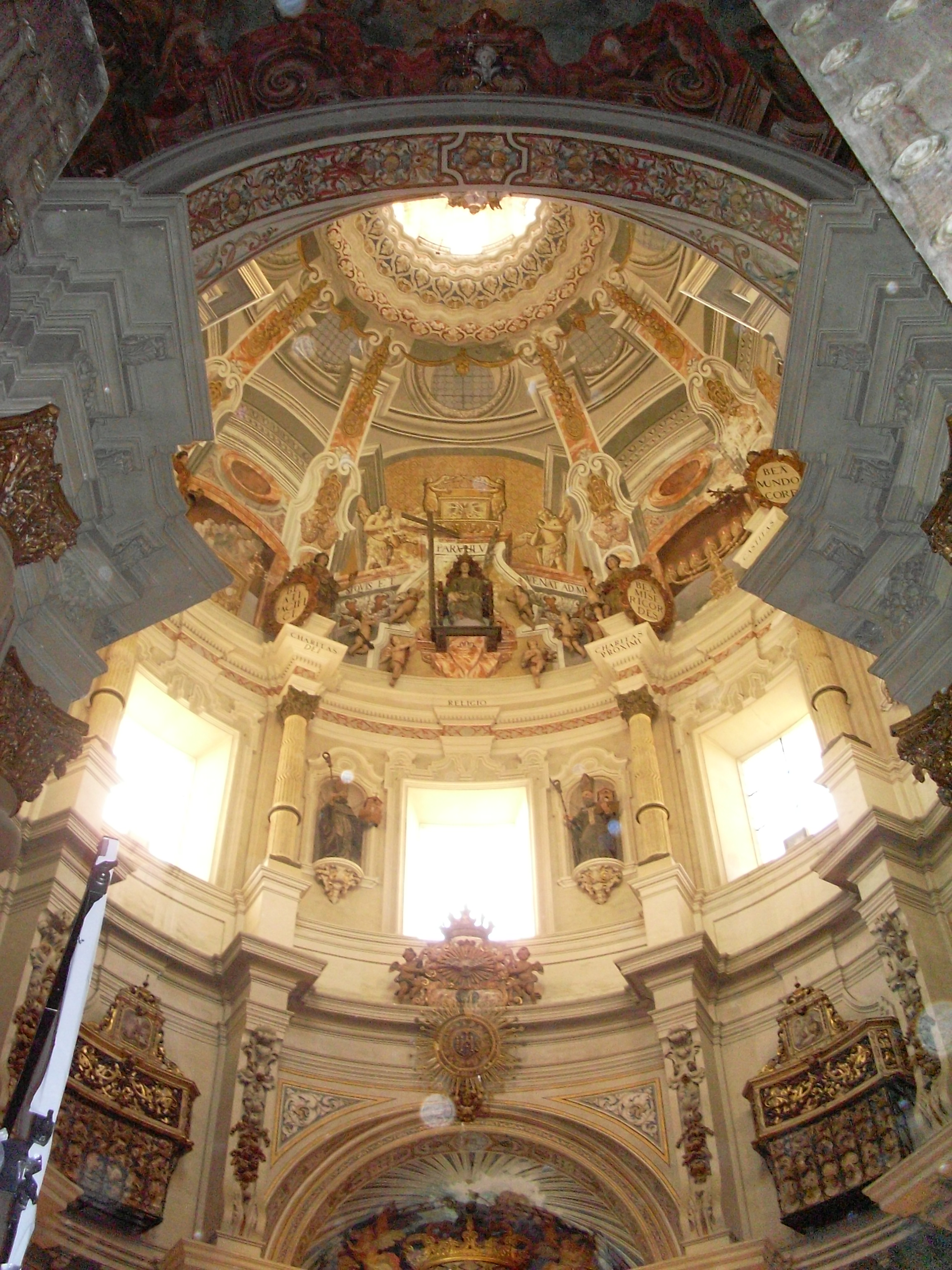 Inside Iglesia de San Luis church, Sevilla, Spain